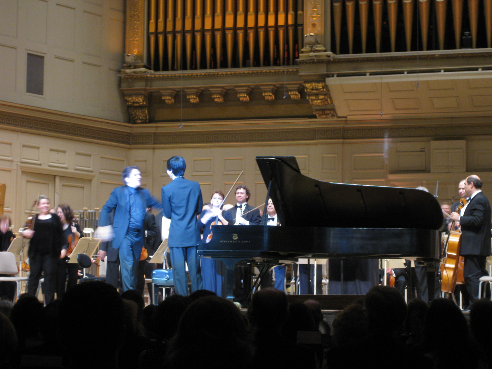 Charlie Albright and Keith Lockhart with the Boston Pops at Boston's Symphony Hall